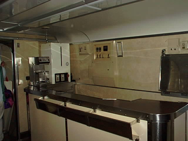 Buffet of Odakyu Elecrtic Railway type 3100.